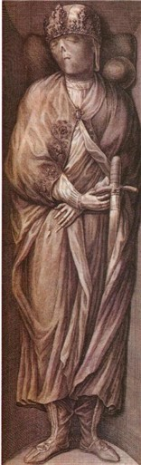 Mummified corpse of Frederick II Hohenstaufen, in a very fine state of preservation, as seen in Palermo by the engraver Francesco Danieli, during the first known exhumation in 1781 (copper-plate engraving) Illustration from: Can. Rosario Gregorio (ed.), Francesco Danieli (ill.); I regali Sepolcri del Duomo di Palermo, Naples, 1784